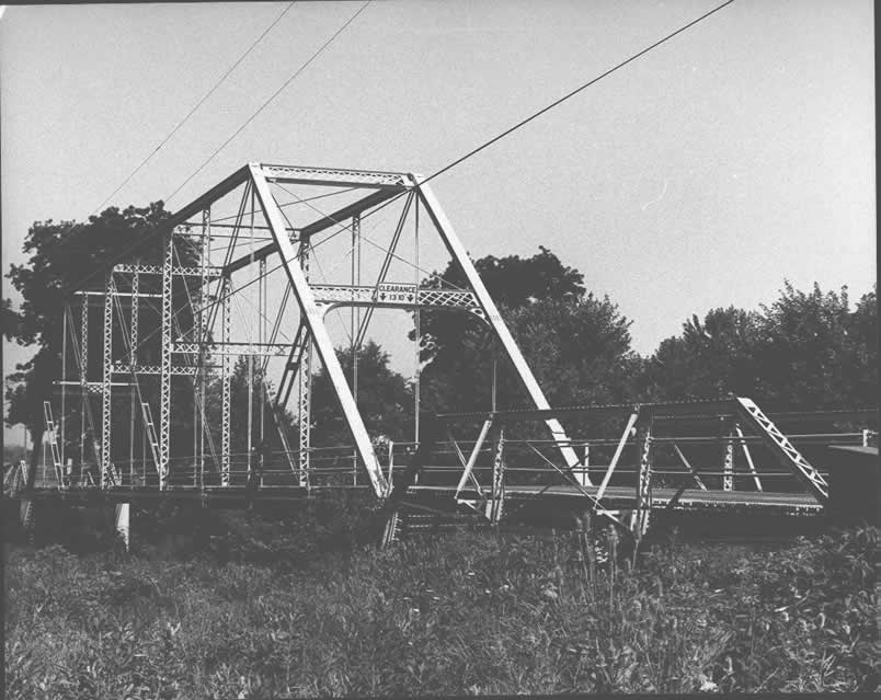 Side of the Bridge in Cumberland Township, which carries Legislative Route 1002 over Marsh Creek near Greenmount in Cumberland and Freedom Townships of Adams County, Pennsylvania, United States. Built in 1894, this through truss bridge is listed on the National Register of Historic Places.